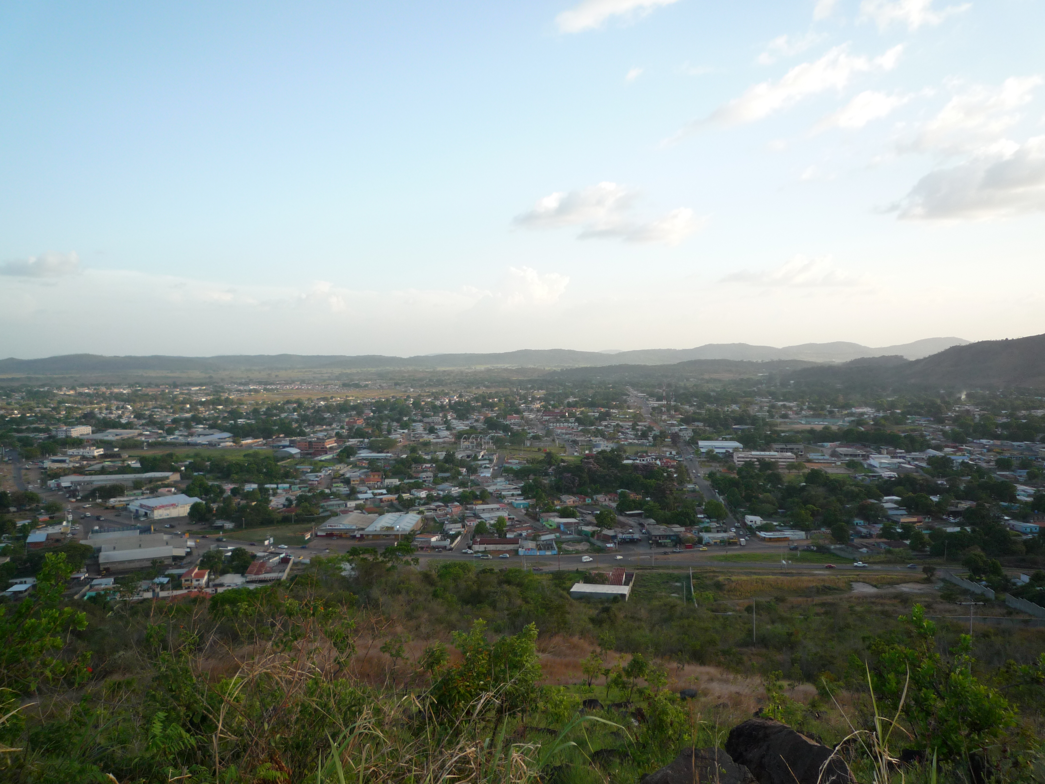 viwe of upata from the top of the mount